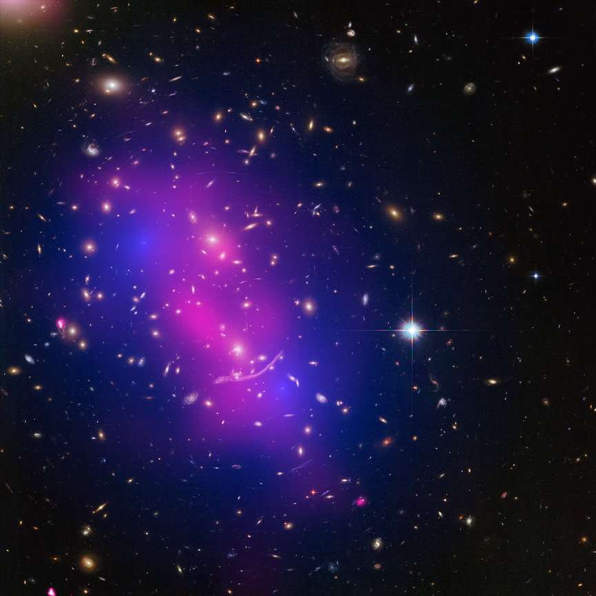 These galaxy clusters are part of a large study using Chandra and Hubble that sets new limits on how dark matter - the mysterious substance that makes up most of the matter in the Universe - interacts with itself. The hot gas that envelopes the clusters glows brightly in X-rays detected by Chandra (pink). When combined with Hubble's visible light data, astronomers can map where the stars and hot gas are after the collision, as well as the inferred distribution of dark matter (blue) through the effect of gravitational lensing.